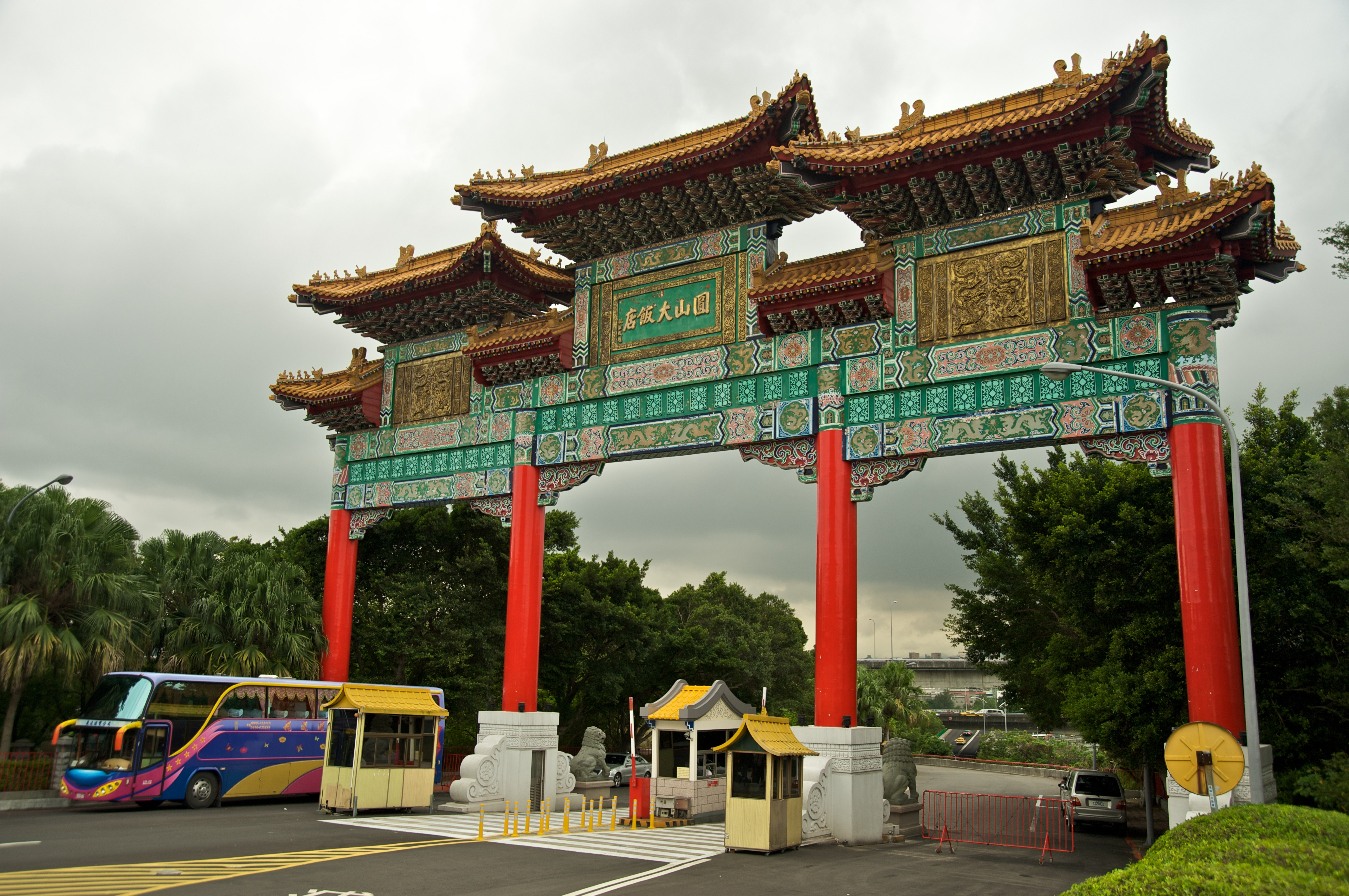 The Grand Hotel in Taipei, Taiwan